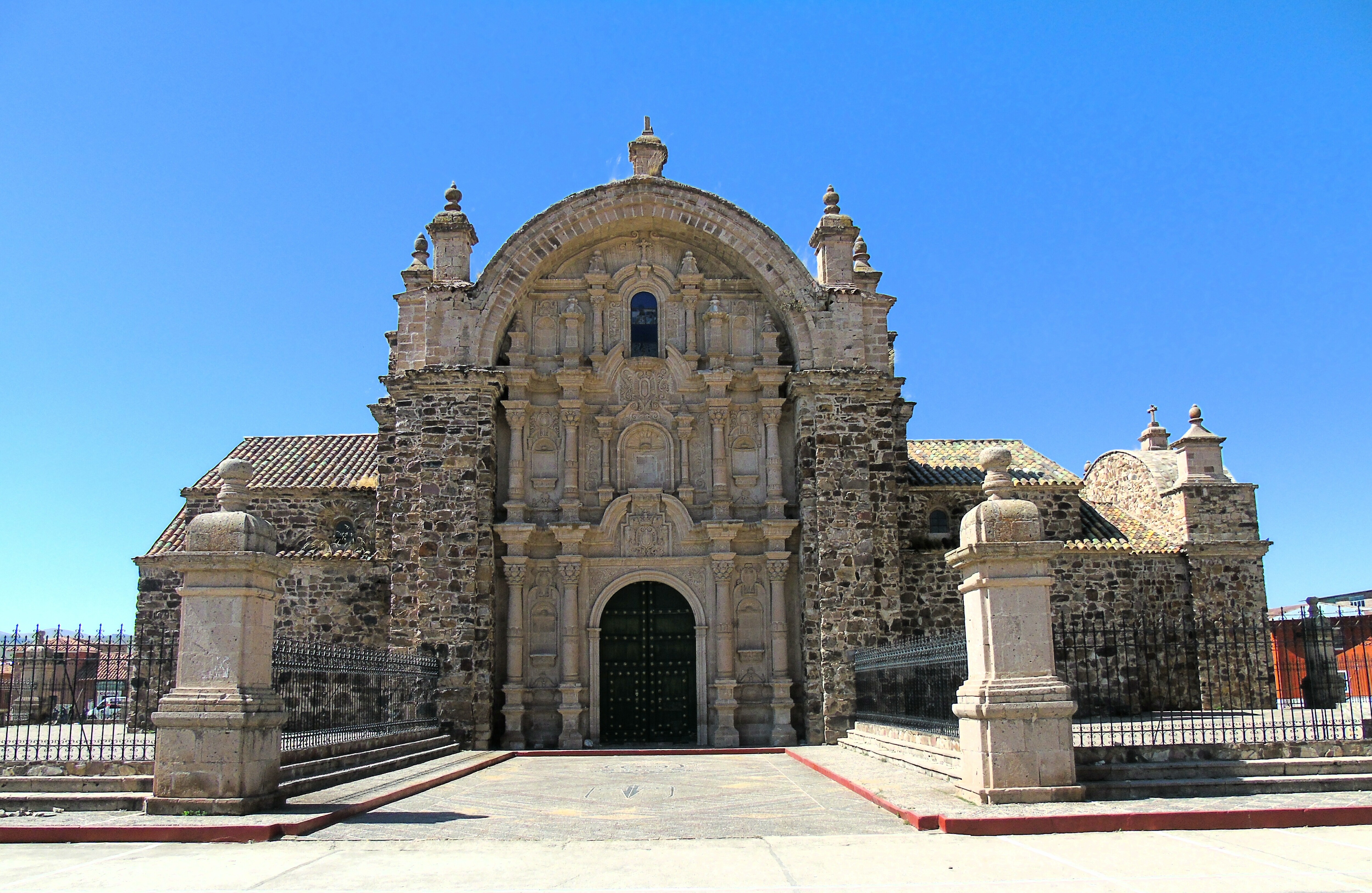 Church of the Immaculate Conception in Lampa, Puno, Peru